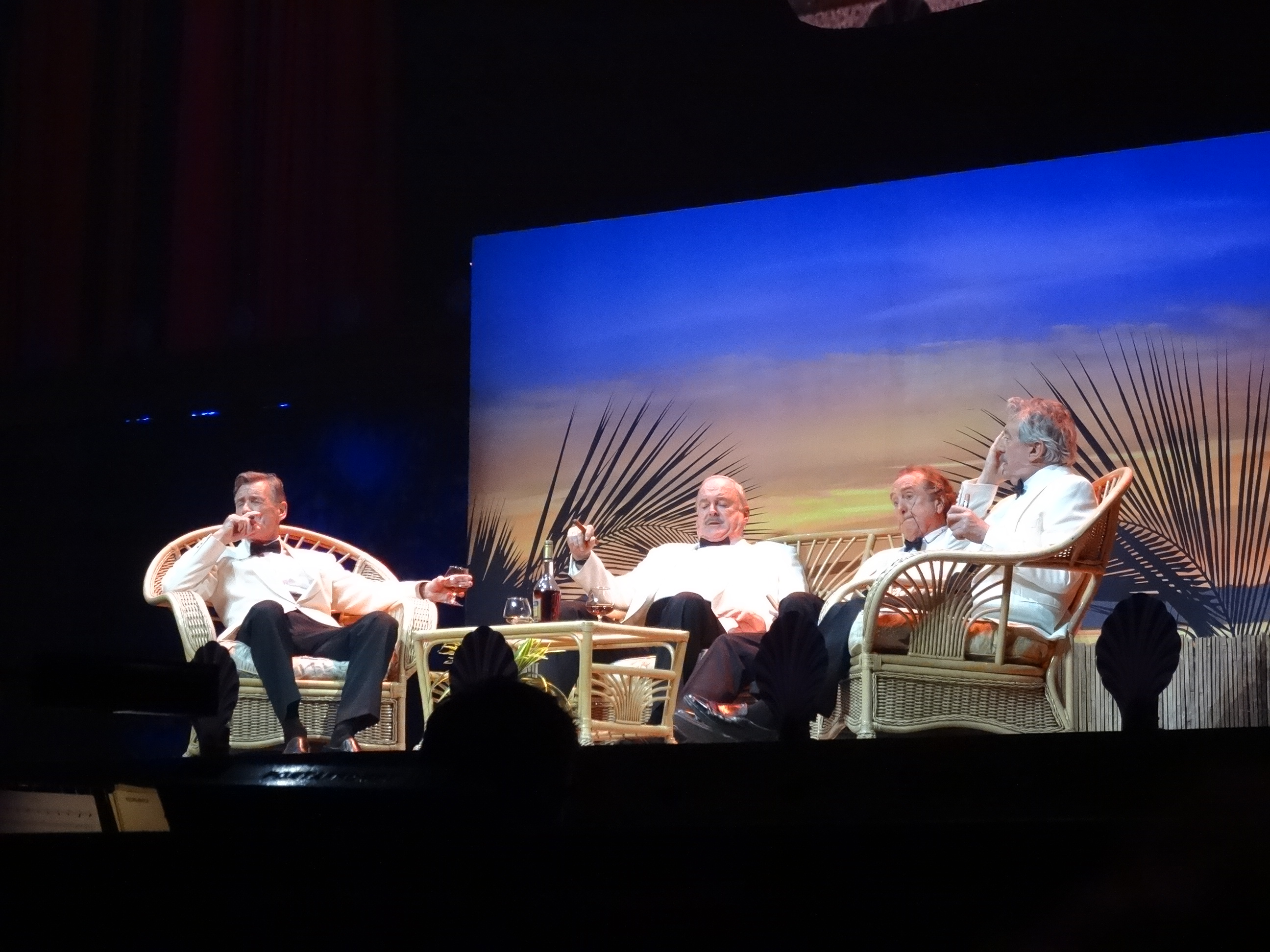 Photo from "The Four Yorkshiremen sketch", 2014-07-02. From left: Michael Palin, John Cleese, Eric Idle and Terry Jones.